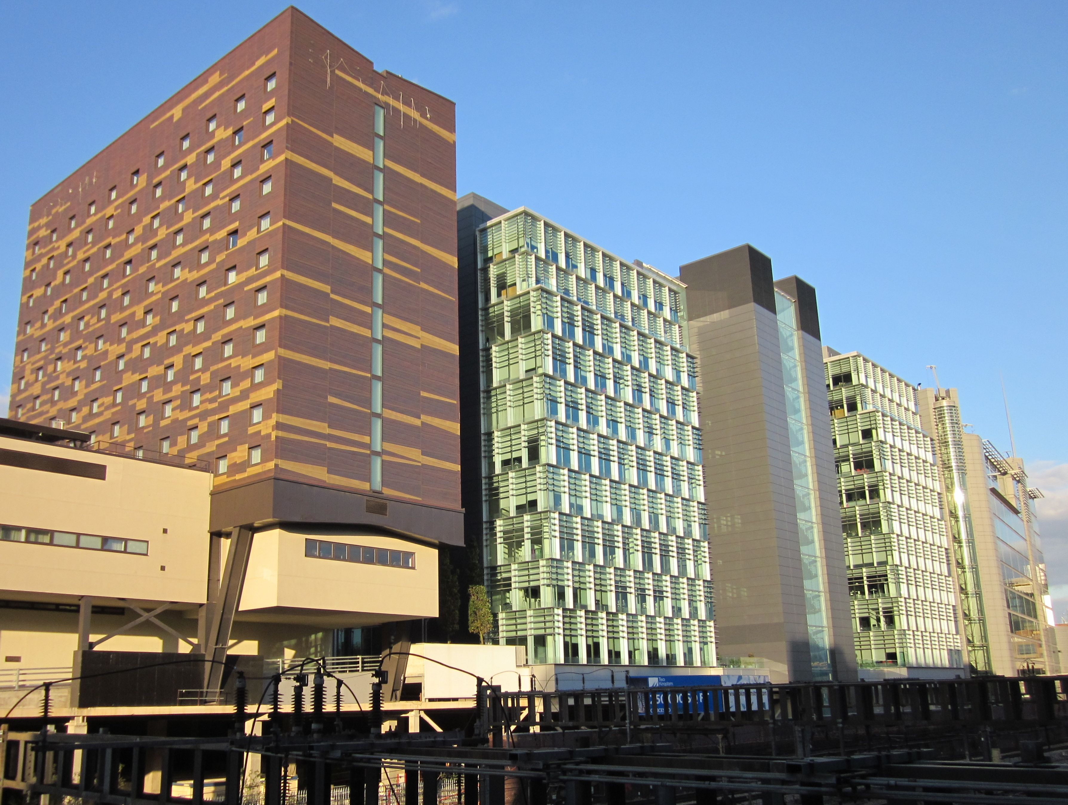 One and Three Kingdom Street in the Paddington Central development, part of the Paddington Waterside regeneration area. Three Kingdom Street on the left is a Novotel hotel.